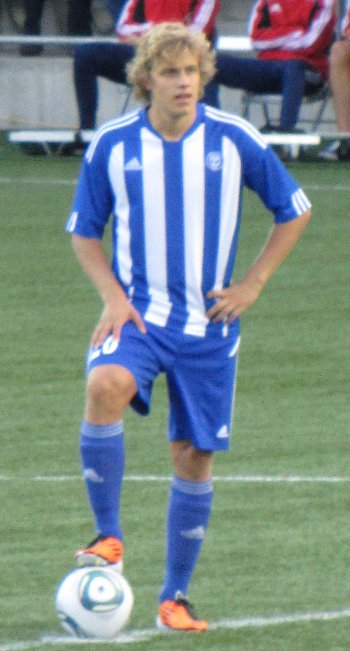 Teemu Pukki during UEFA Europa League play-off HJK – FC Schalke 04